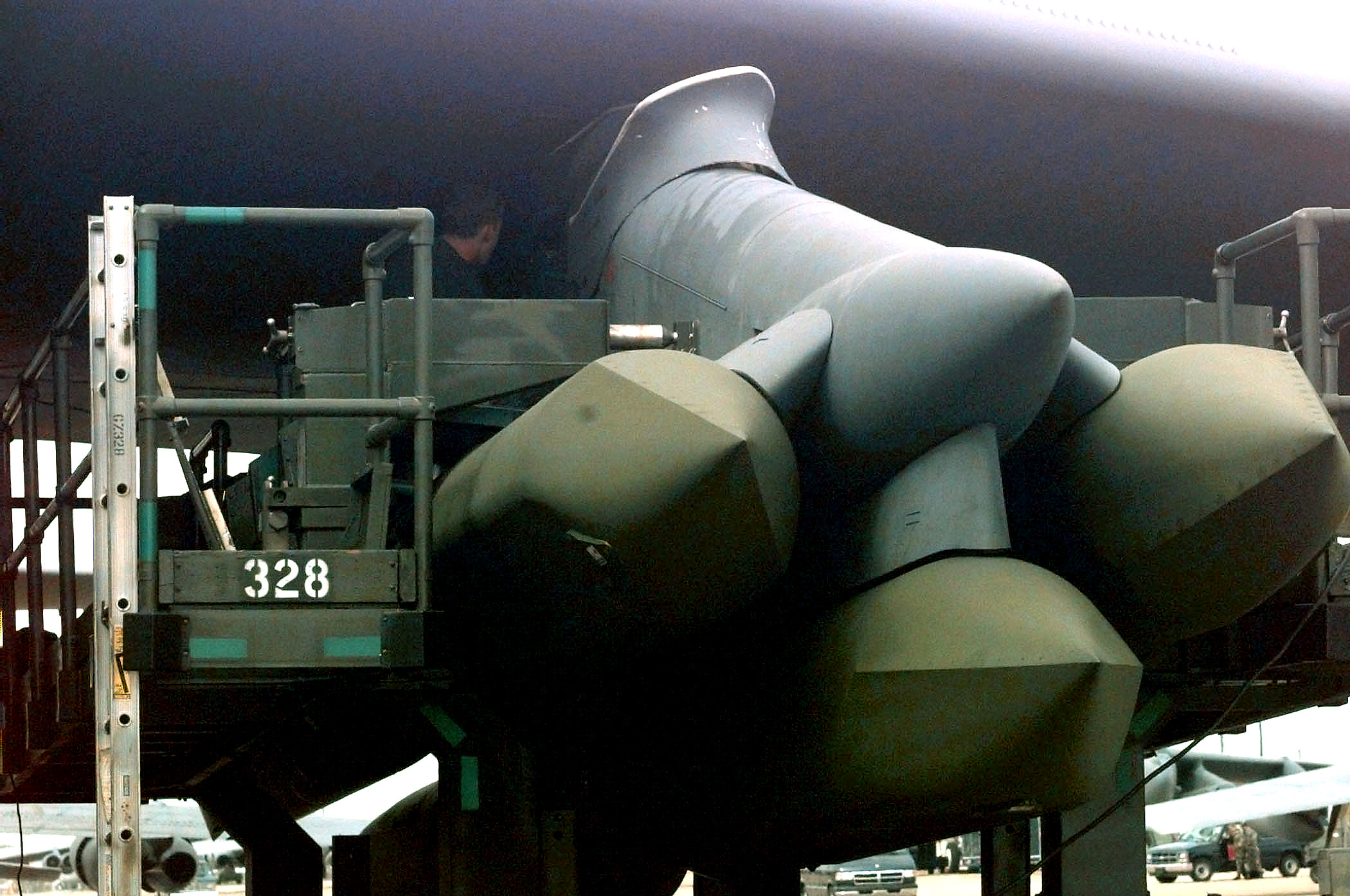 Some AGM-129 ACM cruise missiles get loaded onto a B-52 Stratofortress